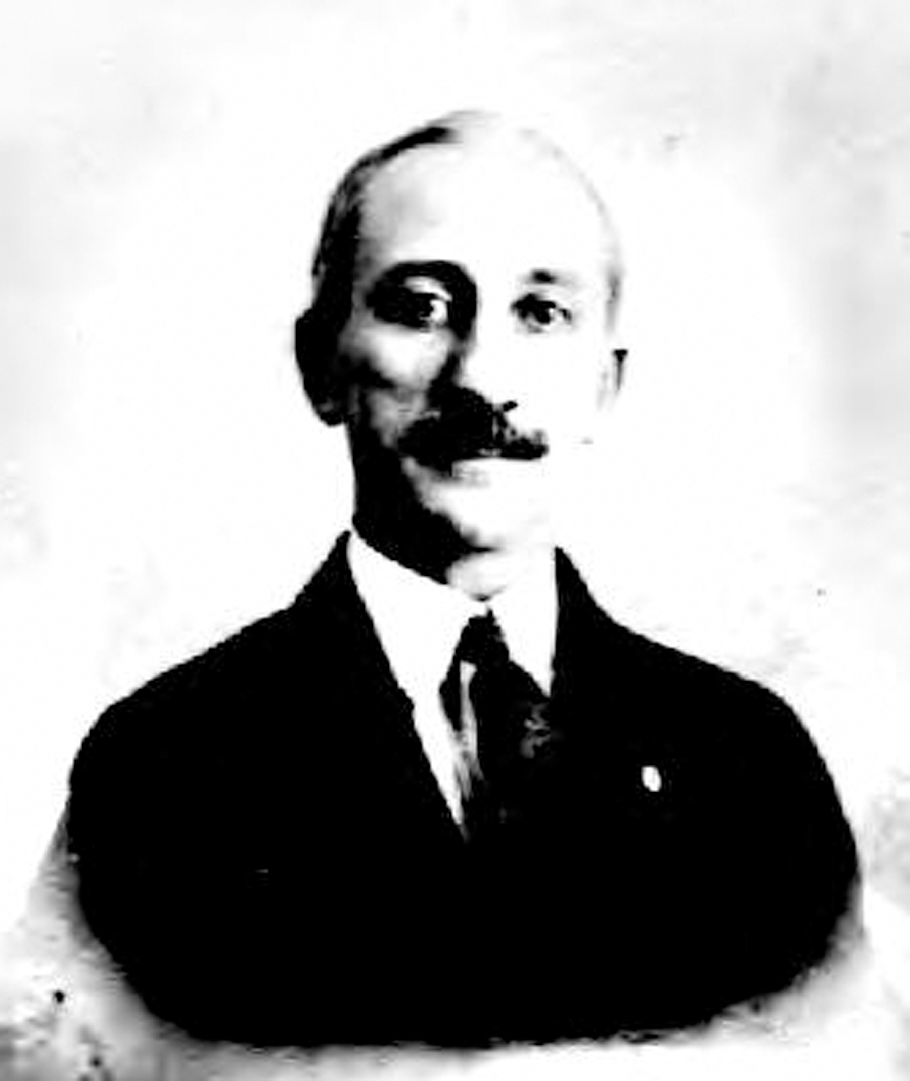 William Wolfe Cohen, Member of Congress from New York